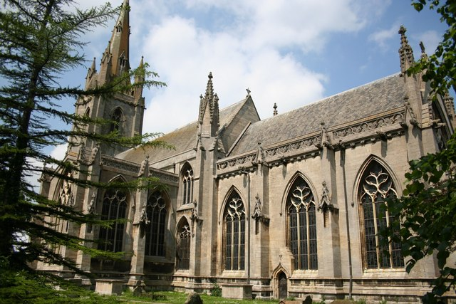 St.Andrew's church, Heckington. One of the finest parish churches in Lincolnshire and arguably in all England. All built c1350 in the Decorated gothic style. Beautiful flowing reticulated and curvilenear traceried windows, a fantastic easter Sepulchre and grand, spacious proportions worthy of a large town church.